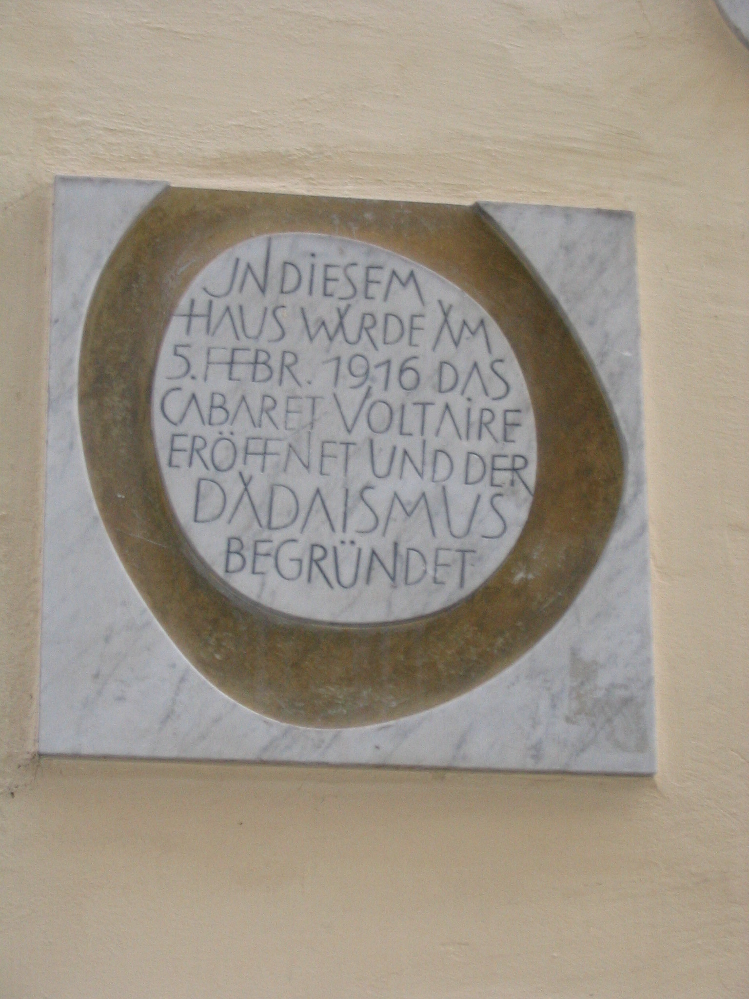 Picture made by me